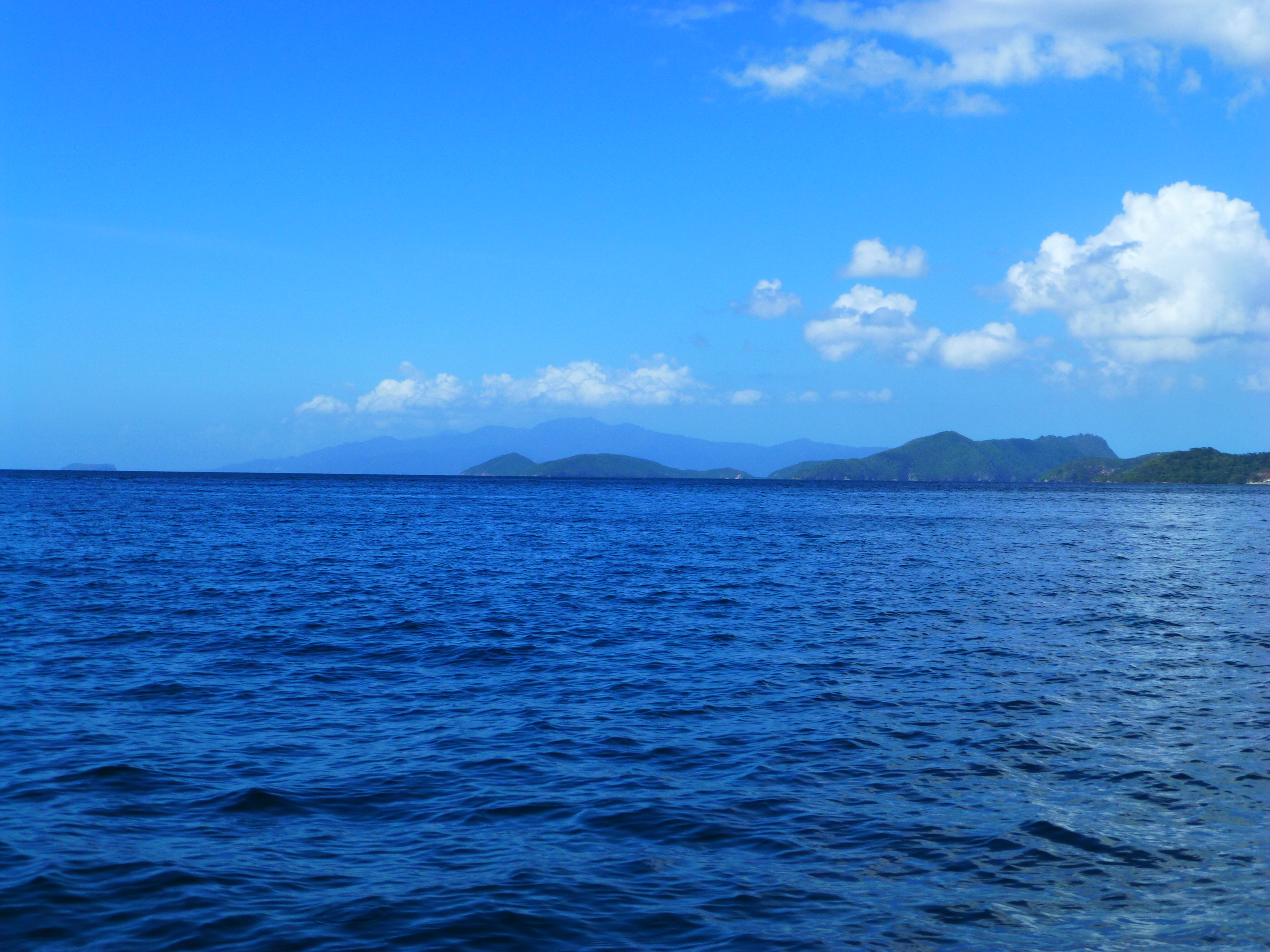 from left to right (from S to N): Isla de Patos - Venezuela mainland - Chacachacare - Monos - Trinidad mainland. View from island Gaspar Grande, near Chaguaramas/Trinidad